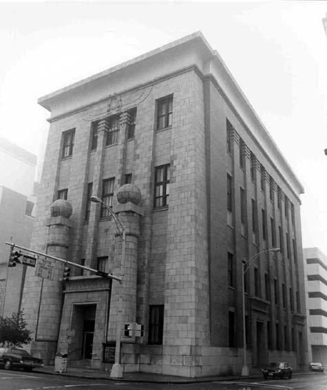 This Egyptian Revival building was a distinctive landmark in Charlotte from the time of its construction in 1914 until its demolition in 1987. Designed by famed Charlotte architect C. C. Hook and by W. G. Rogers, the building drew praise from President Woodrow Wilson during a a visit to Charlotte in 1916. The entrance columns were preserved and since 1991 adorn the Gateway Intersection in Rock Hill, South Carolina.